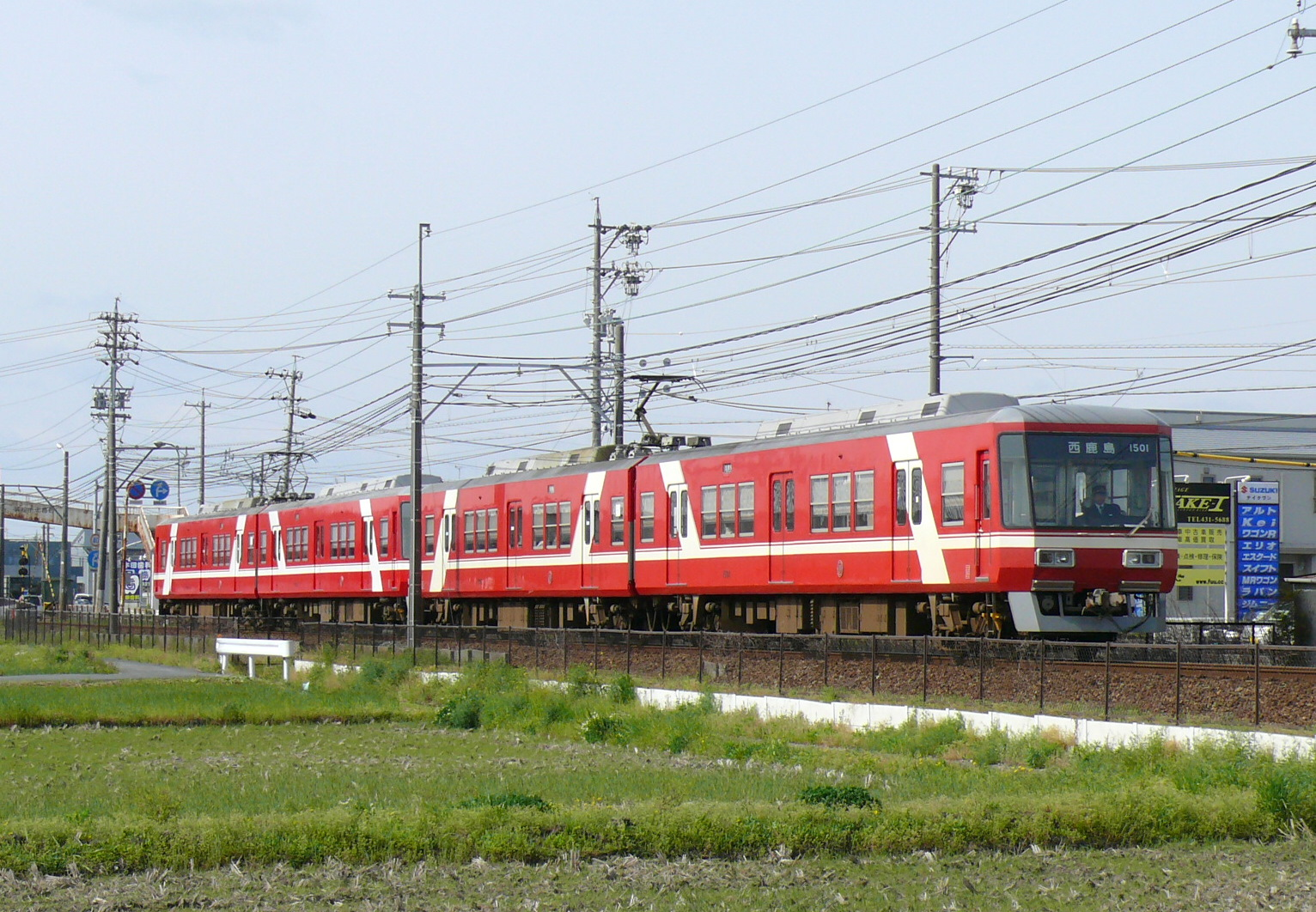 Enshu Railway Line.